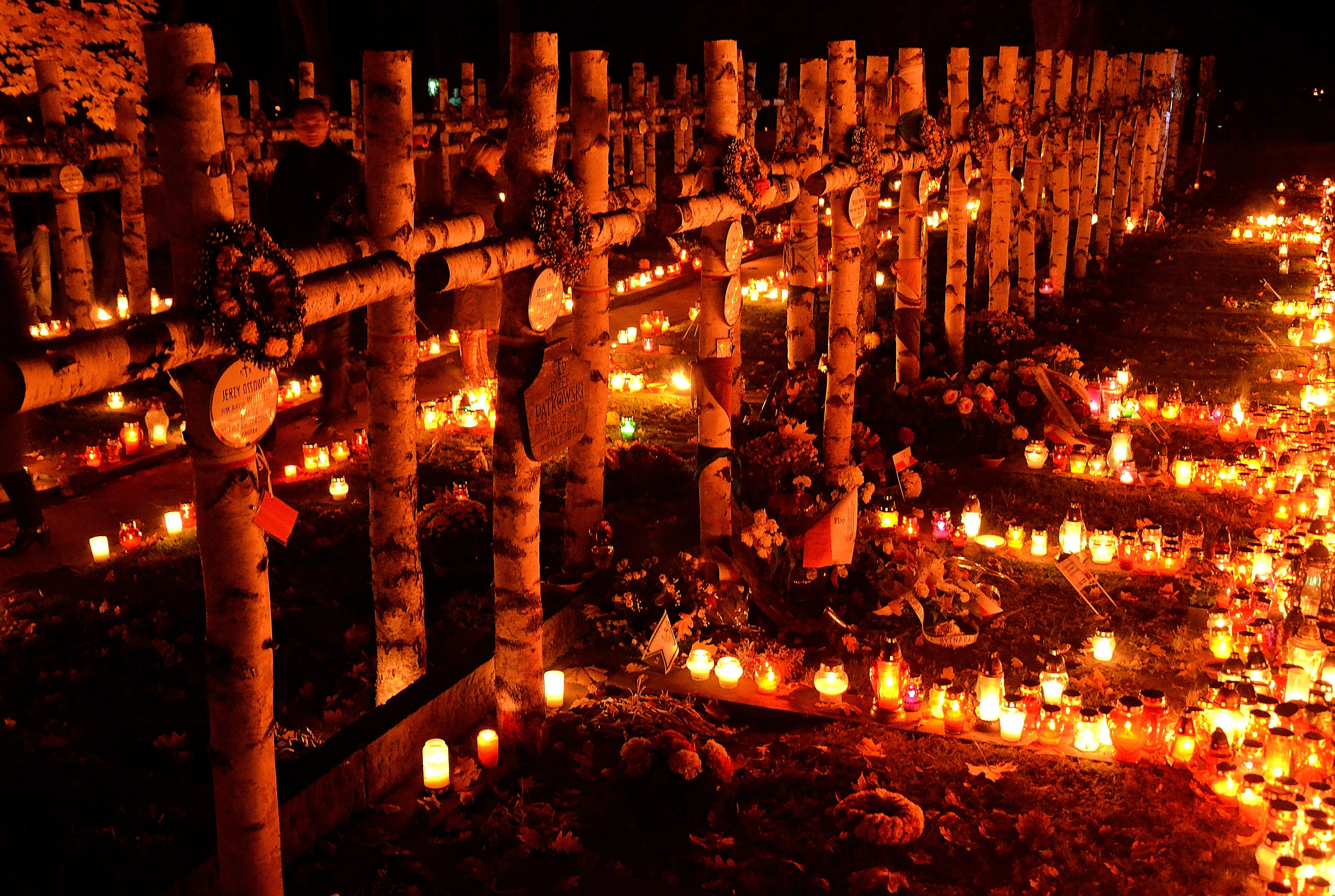 All Saints Day. Battalion Zośka quarter (A–20) in the Powązki Military Cemetery in Warsaw